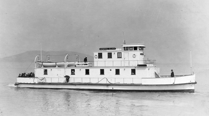 Admiral Glass (YFB-2) underway in San Francisco Bay, date unknown. Admiral Glass is most likely enroute between Mare Island and Goat Island (now Yerba Buena Island) in San Francisco Bay. Navy Yard Mare Island photo.